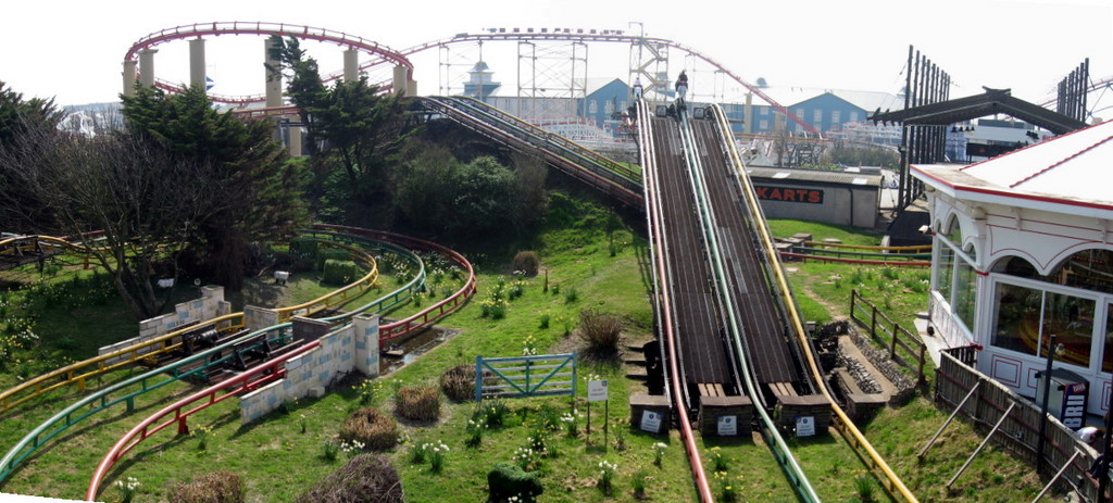 Steeplechase, Pleasure Beach, Blackpool, United Kingdom